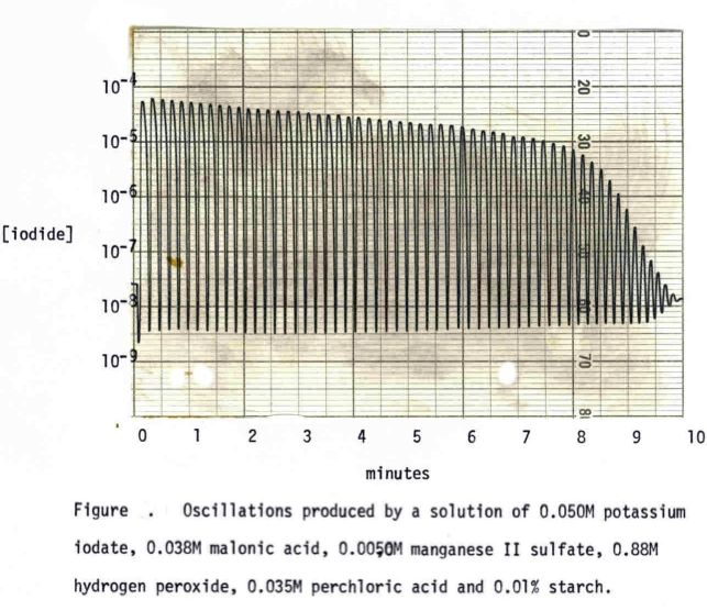 Oscillogram of iodide concentration made by Briggs and Rauscher.